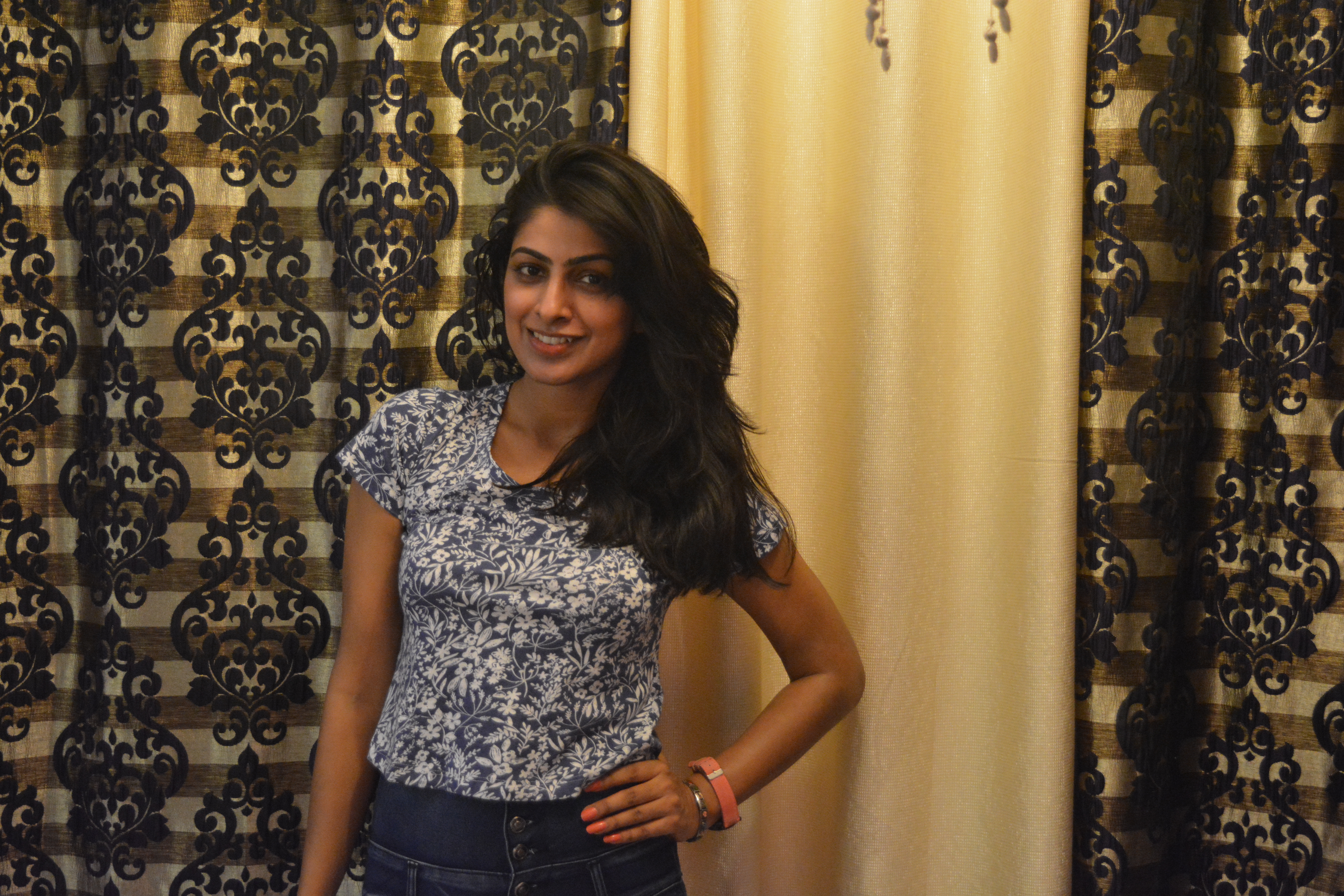 Swati Rajput Photograph